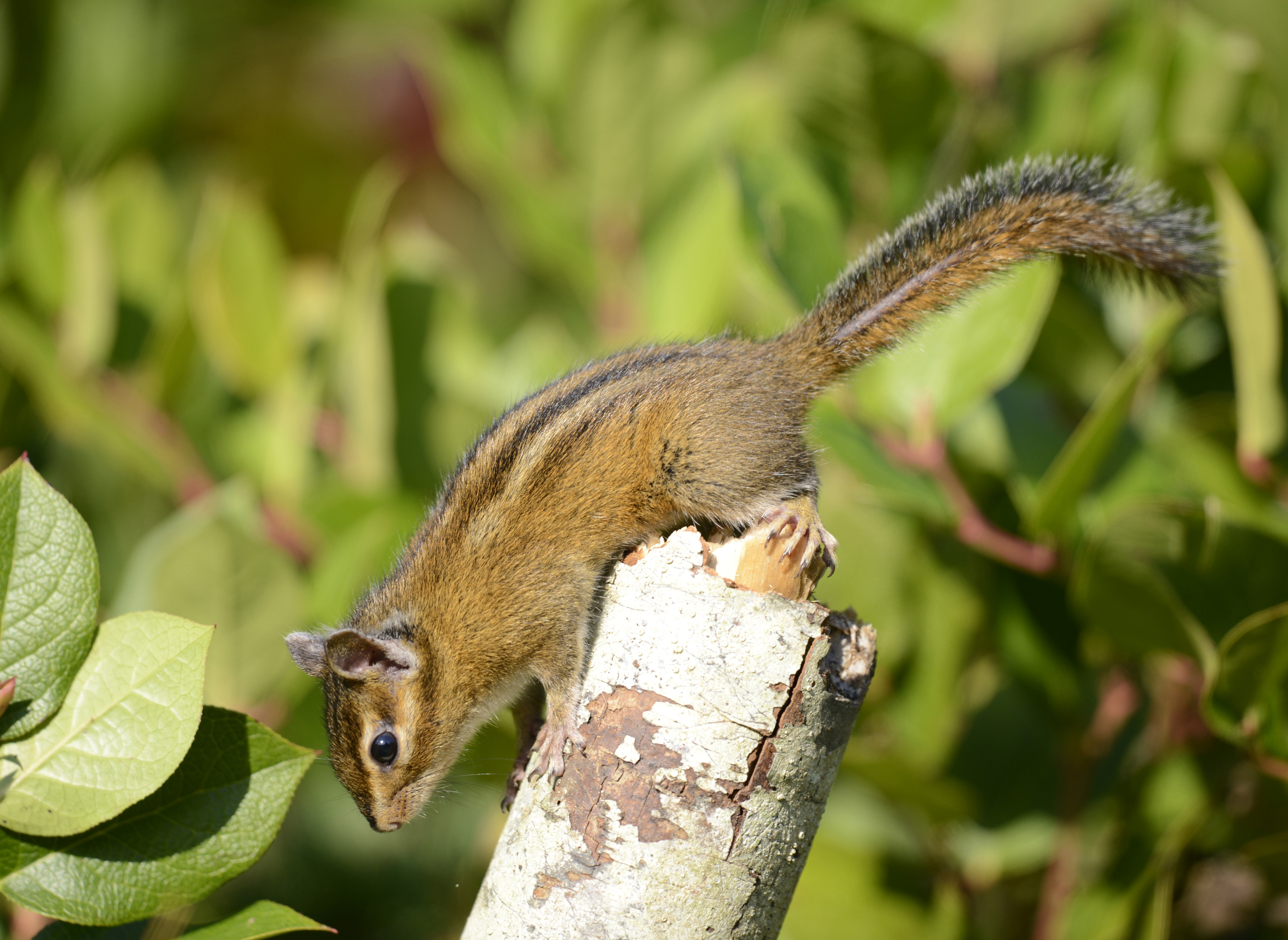 Townsend’s Chipmunk, Eutamias tounsendii, Western Washington